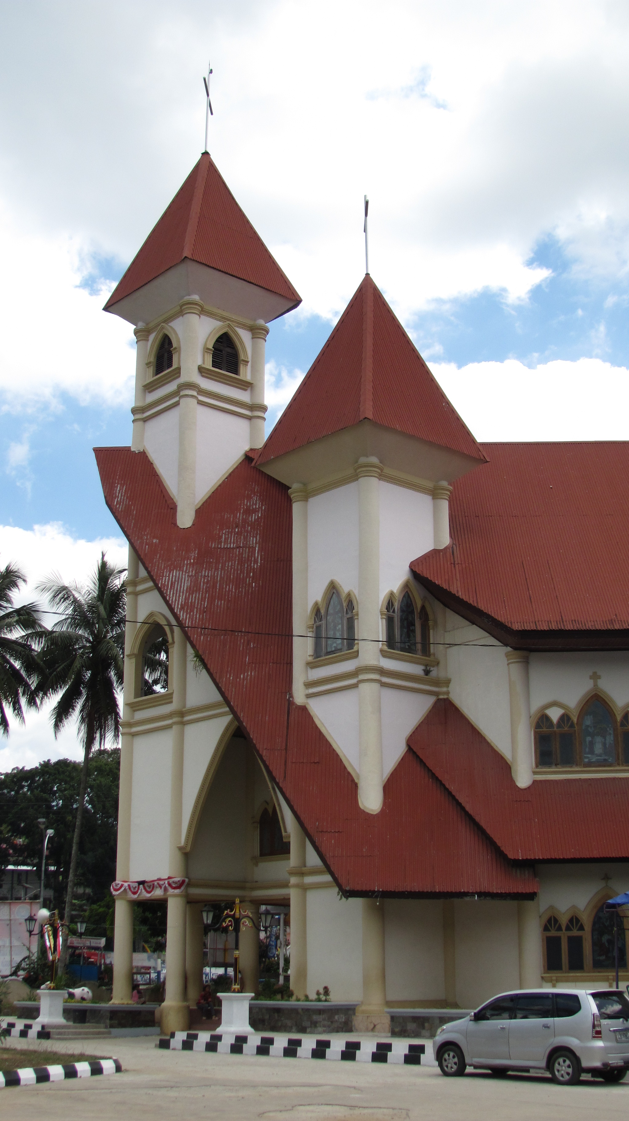 Protestant Church "Gereja Toraja" in Makale, Tana Toraja, Sulawesi, Indonesia